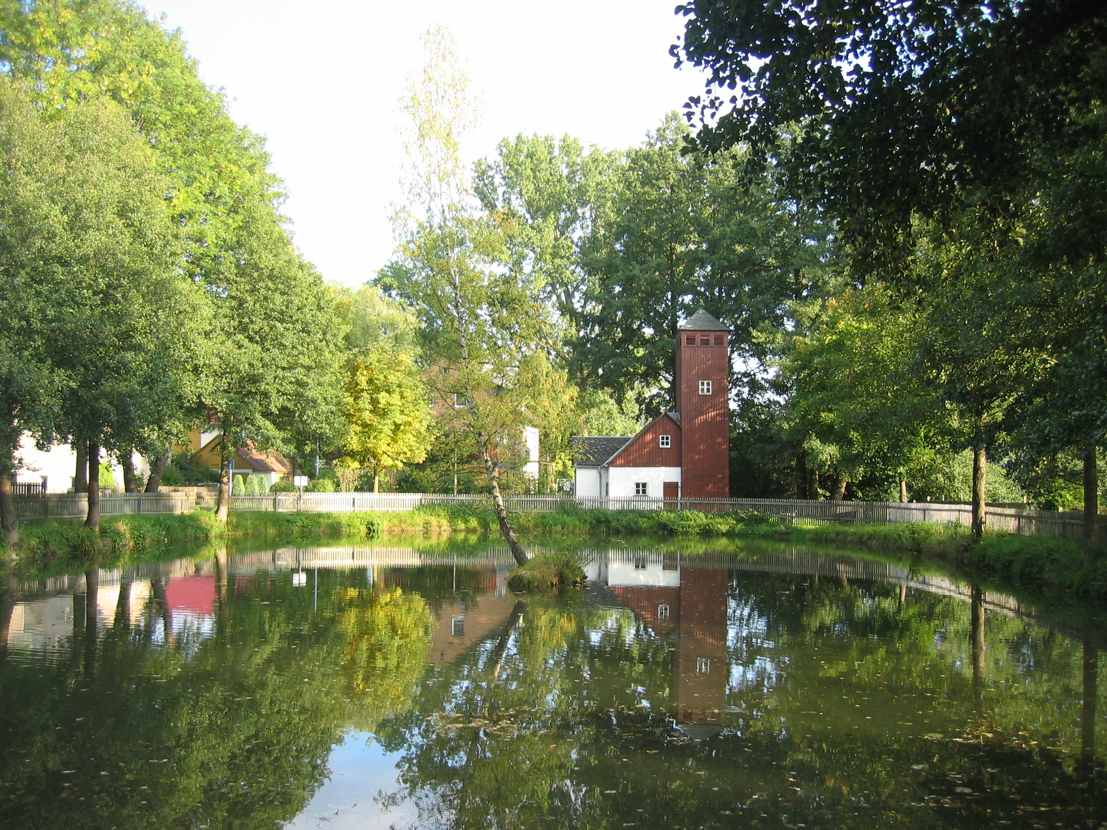 village pond of Schlegel (Münchberg)